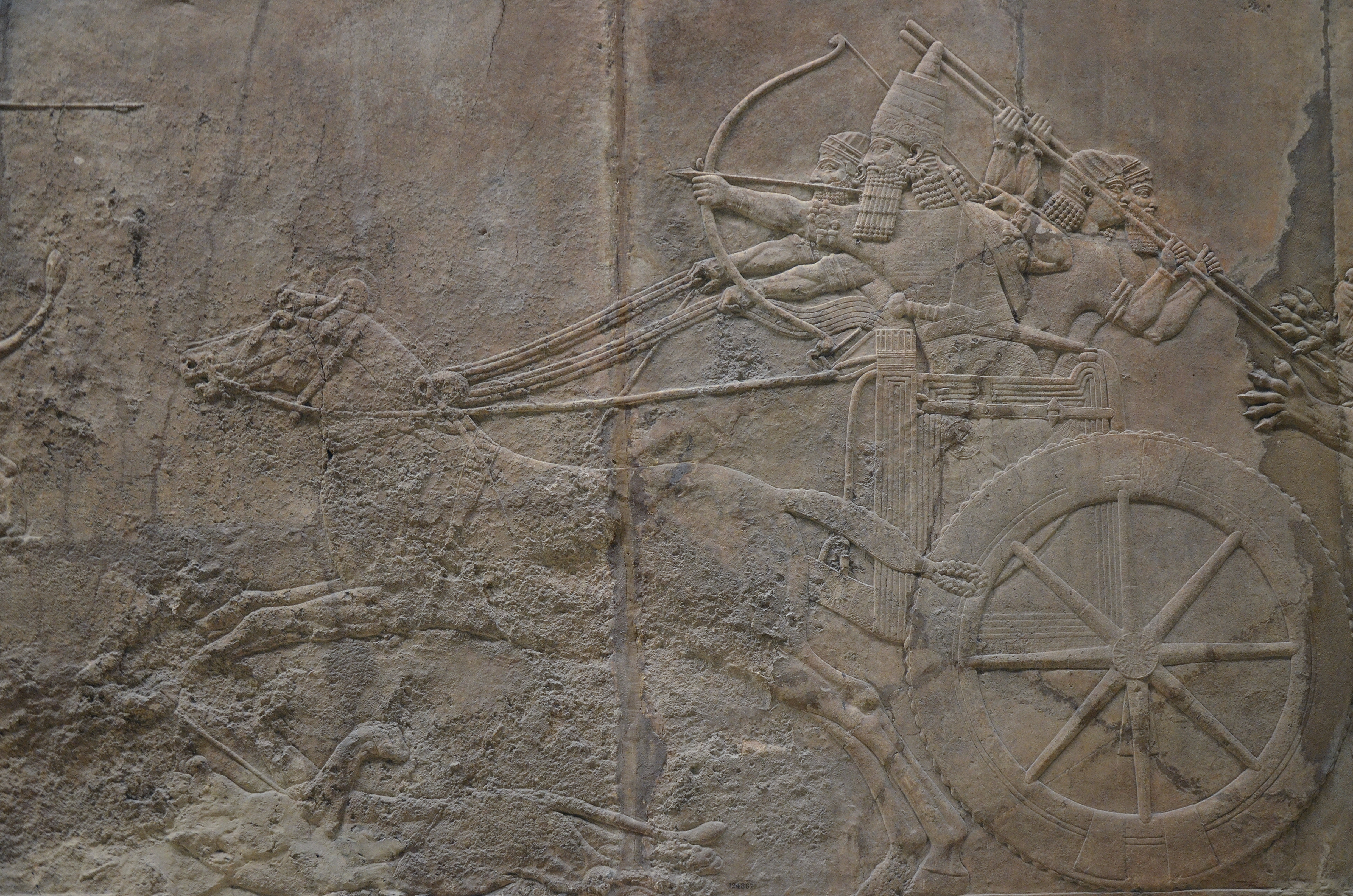 Sculpted reliefs depicting Ashurbanipal, the last great Assyrian king, hunting lions, gypsum hall relief from the North Palace of Nineveh (Irak), c. 645-635 BC, British Museum